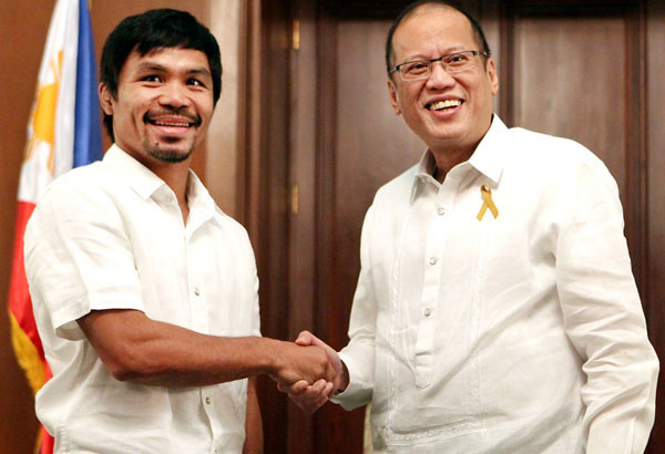 President Benigno S. Aquino III greets Sarangani Rep. Manny Pacquiao during a courtesy call at Malacañang.